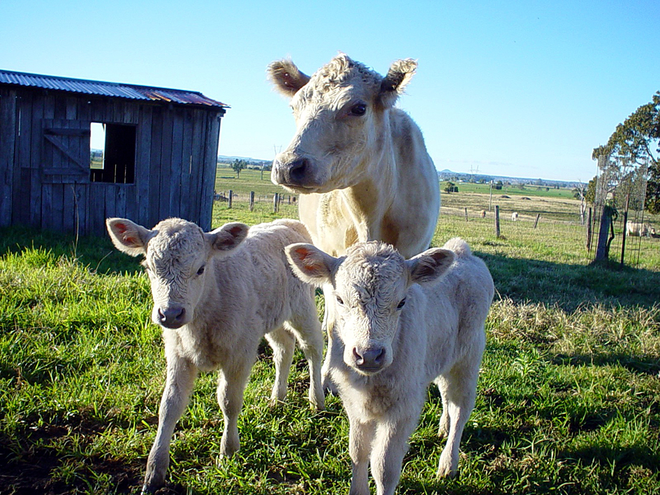 Murray Grey cows. A mother and her twin calves. Photo credit: Judith Maunders